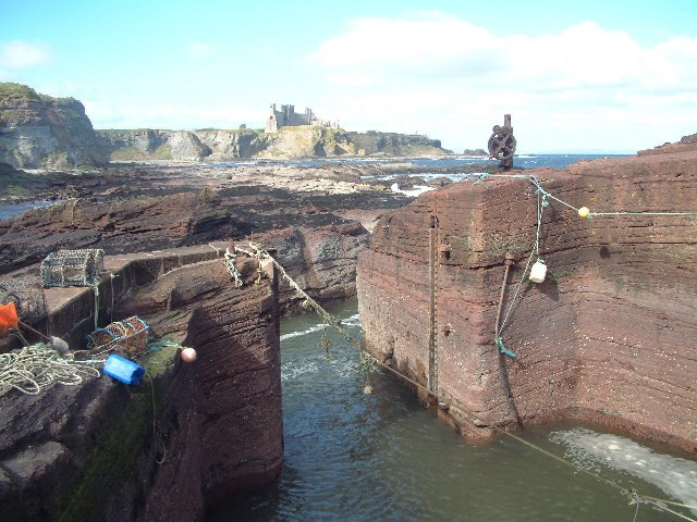 Seacliff Harbour This is the smallest harbour in the British Isles, with an entrance barely two metres wide and accommodating a single fishing boat. The harbour is blasted out of the Gegan Rock. Tantallon Castle is in the background.